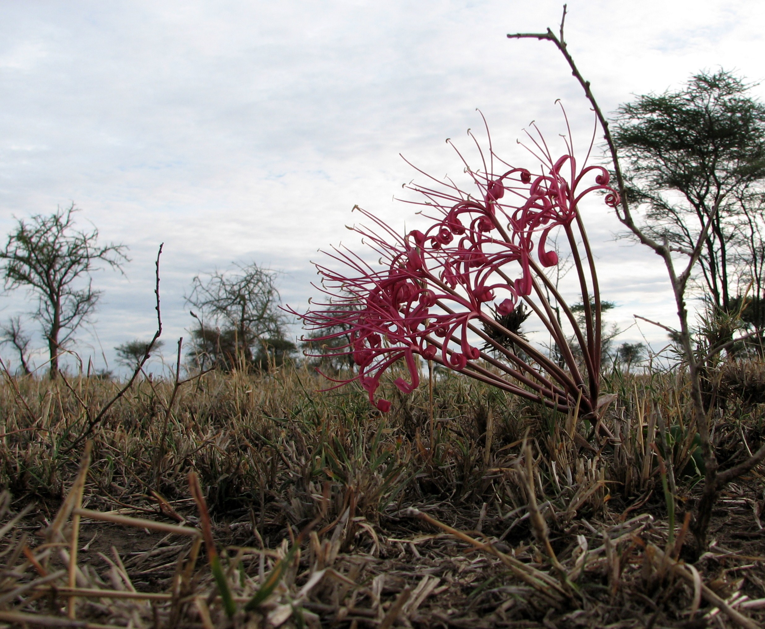 Ammocharis tinneana, Serengeti